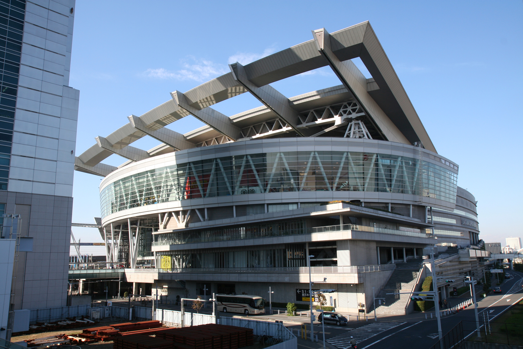 Saitama Super Arena in Saitama prefecture, Japan. Good Design Award 2001.